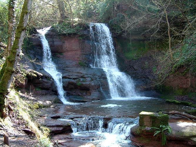 Photograph of Pwwlwrach waterfall near Talgarth, Powys, Wales.